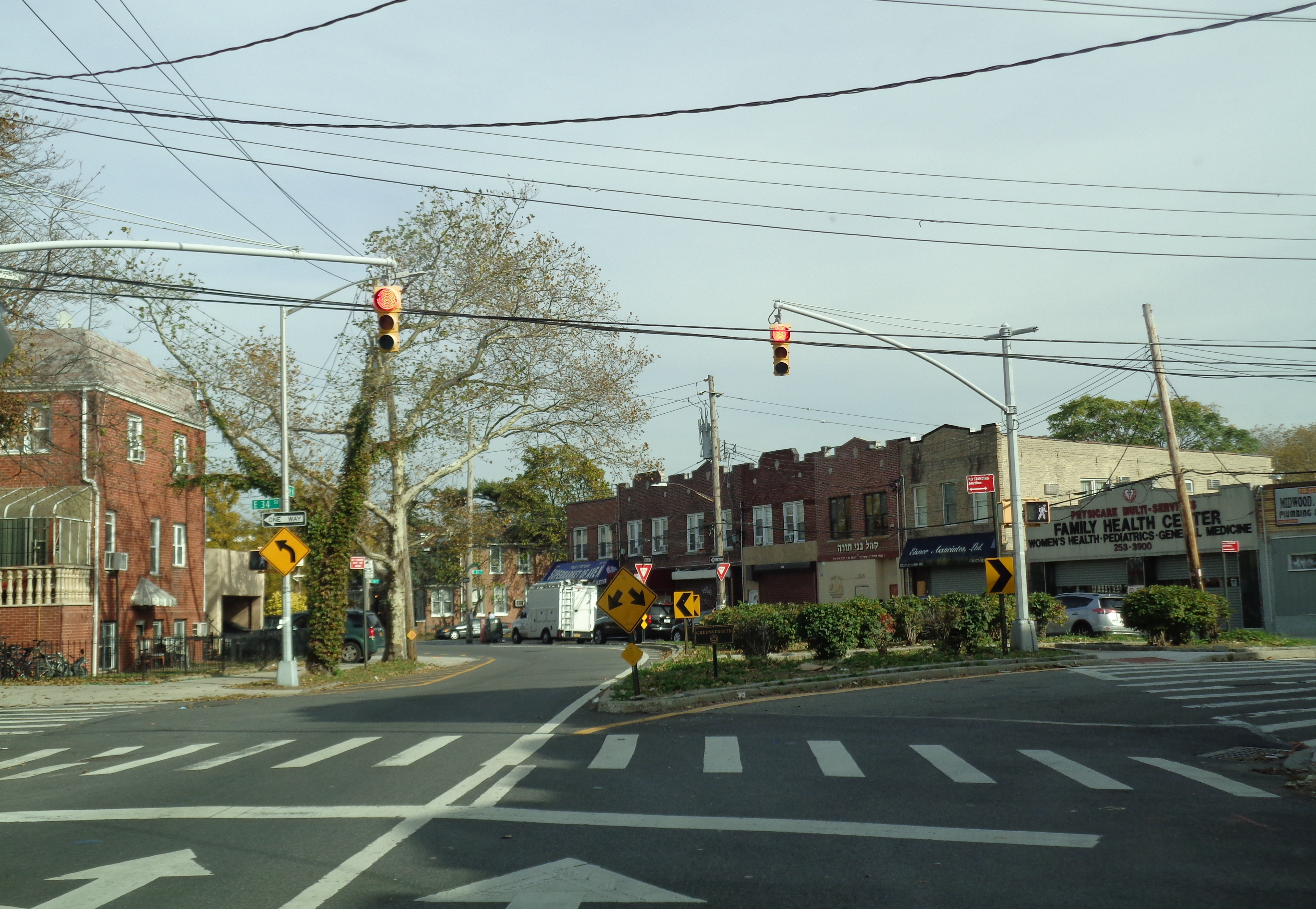 The park triangle at Avenue N and East 34th Street, where Avenue N feeds into Flatlands Avenue, in Flatlands, Brooklyn.